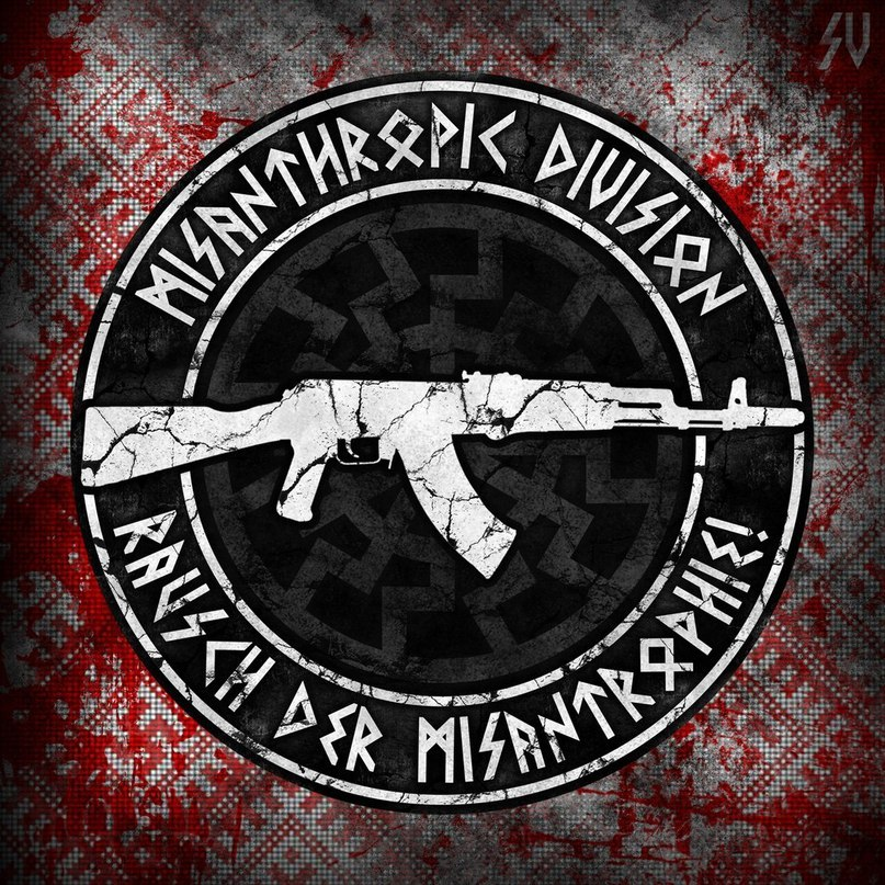 The emblem of Ukrainian neo-nazi movement «Misanthropic Division» (MD), which has followers in Russia and Belarus.